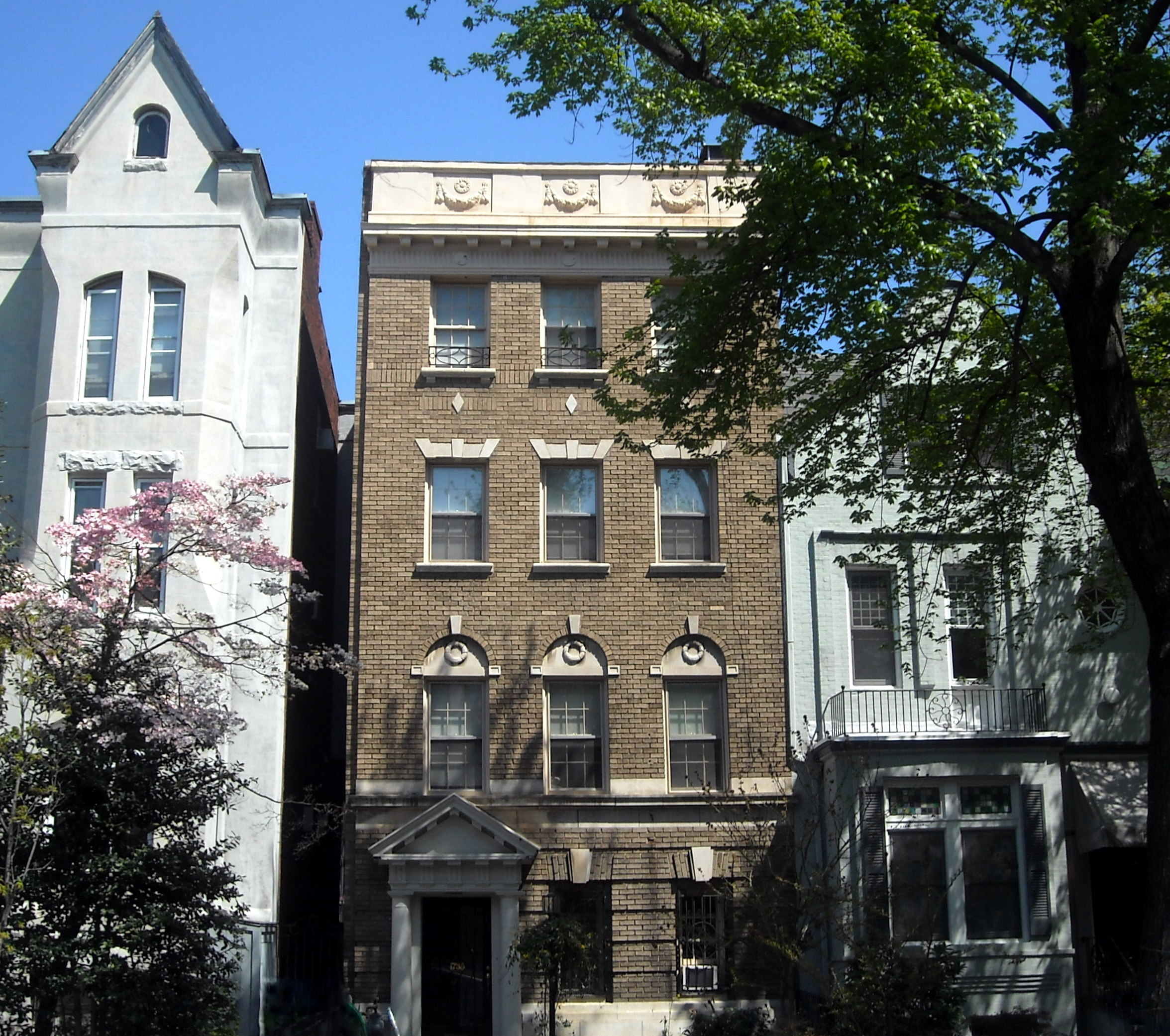 The rectory of St. Thomas' Parish (since 1977), located at 1735 19th Street, N.W., in the Dupont Circle neighborhood of Washington, D.C. Built in 1916 by real estate developer David J. Dunigan, the four-story, Beaux-Arts style residence is designated as a contributing property to the Dupont Circle Historic District, listed on the National Register of Historic Places in 1978. Previous occupants of 1735 19th Street, N.W., include: Simeon T. Price - former president of the Terminal Refrigerating and Warehousing Company; former director of the Washington Market Company Simeon T. Price, Jr. - golfer; bronze medalist at the 1904 Summer Olympics John R. Immer - former president of Work Saving International, a management consulting firm; former president of the Federation of Citizens Associations of the District of Columbia John Dowdy - former Democratic Representative from Georgia Richard Tafel - former executive director of the Log Cabin Republicans; author of Party Crasher: A Gay Republican Challenges Politics as Usual